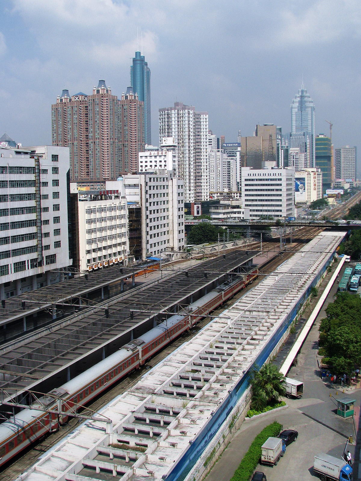 View of Shenzhen Railway Station in 2008